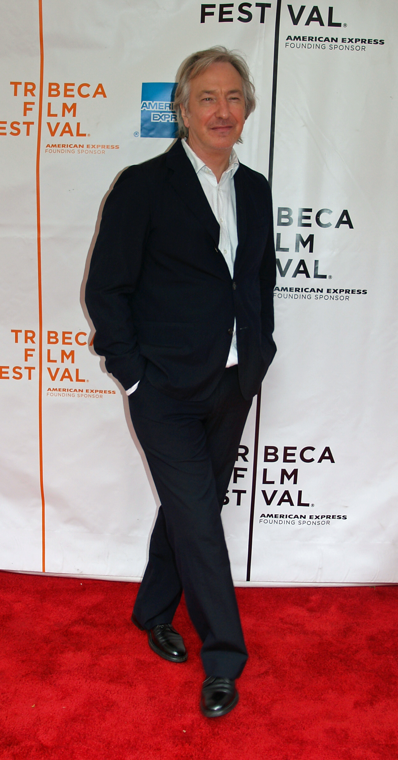 Alan Rickman at the 2007 Tribeca Film Festival